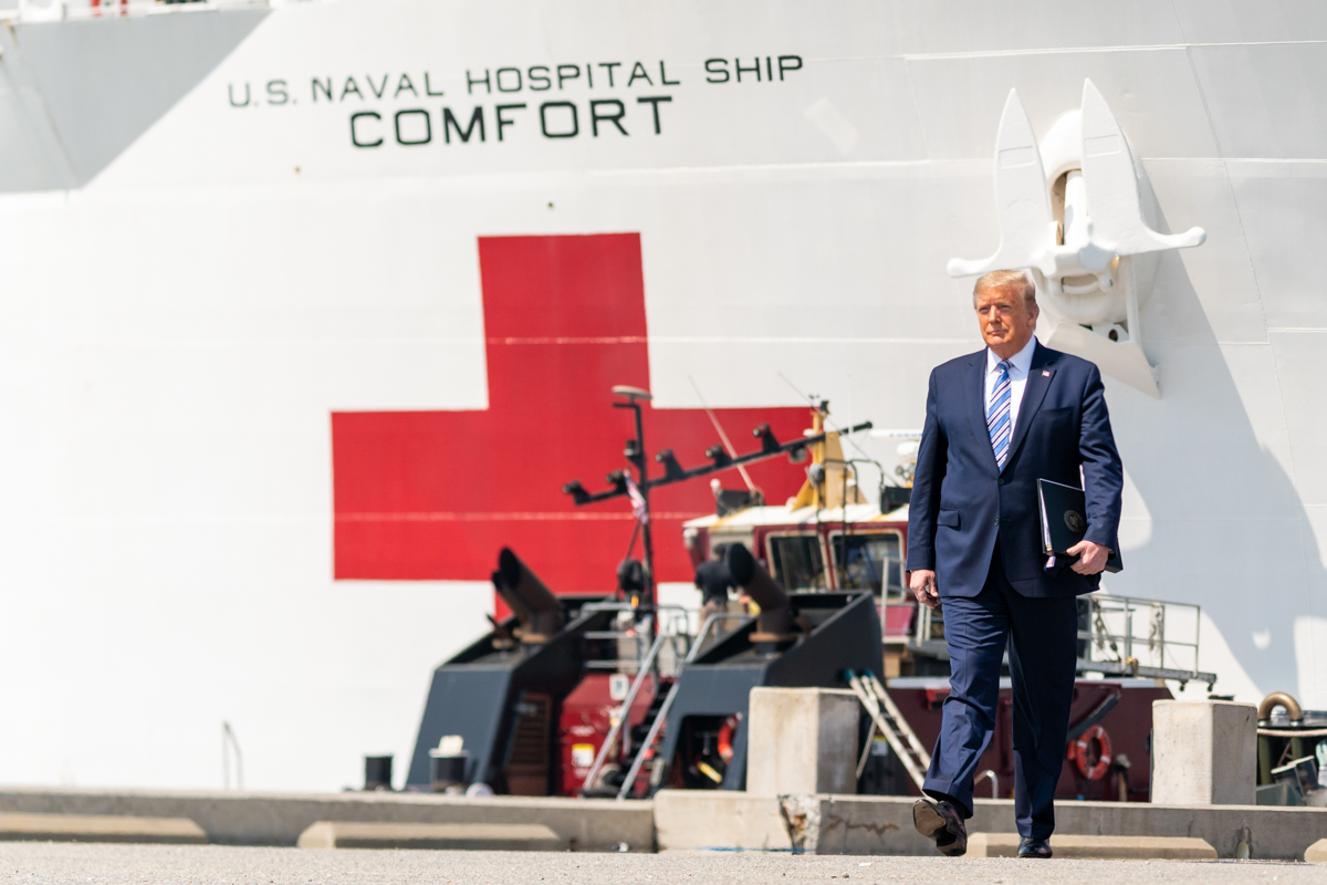 President Donald J. Trump arrives at Naval Air Station Norfolk Pier 8, Saturday, March 28, 2020, prior to his remarks at the departure of the USNS Comfort, a U.S. Navy hospital ship stationed in Norfolk, Virginia. (Official White House Photo by Shealah Craighead)